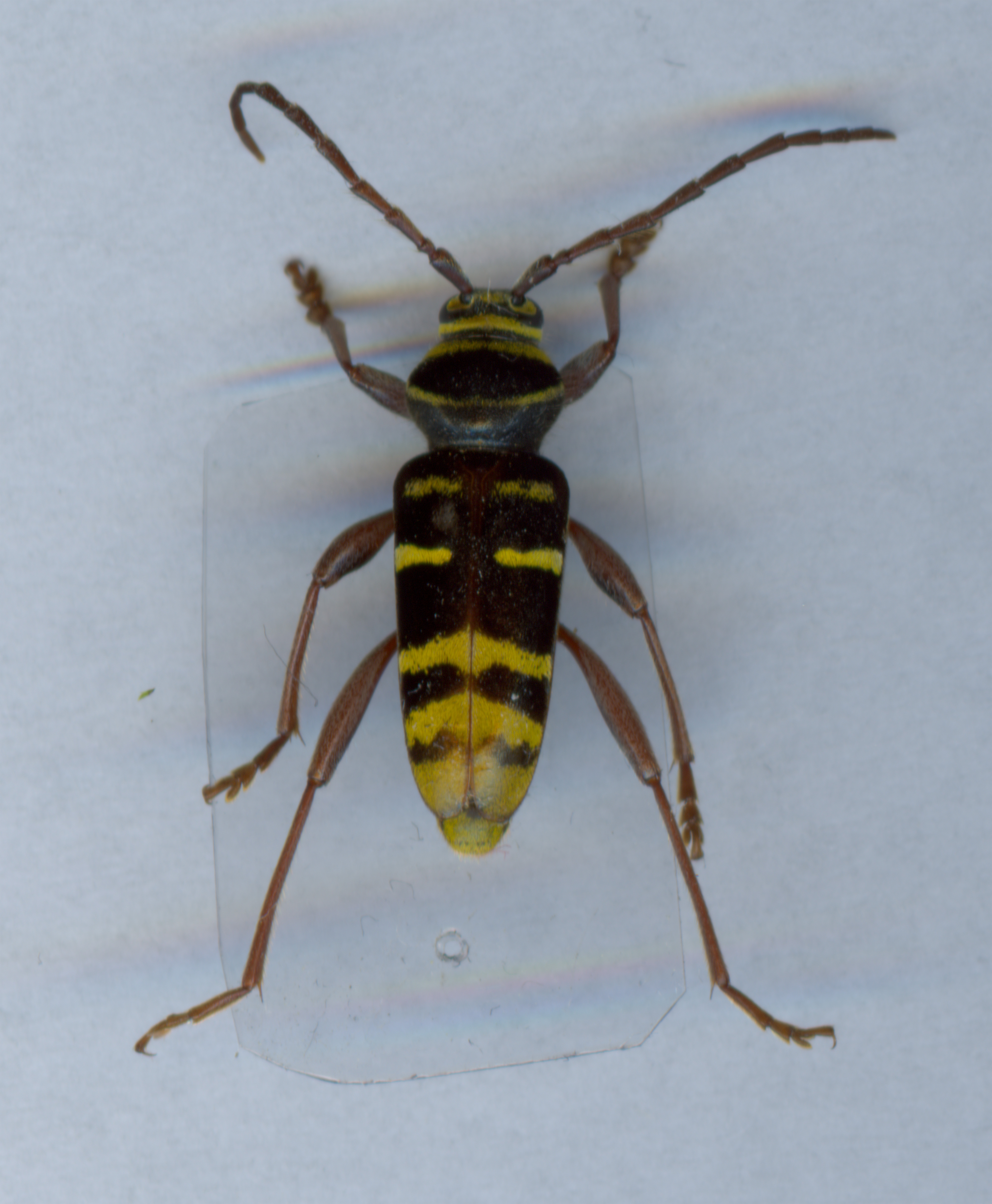 Plagionotus detritus